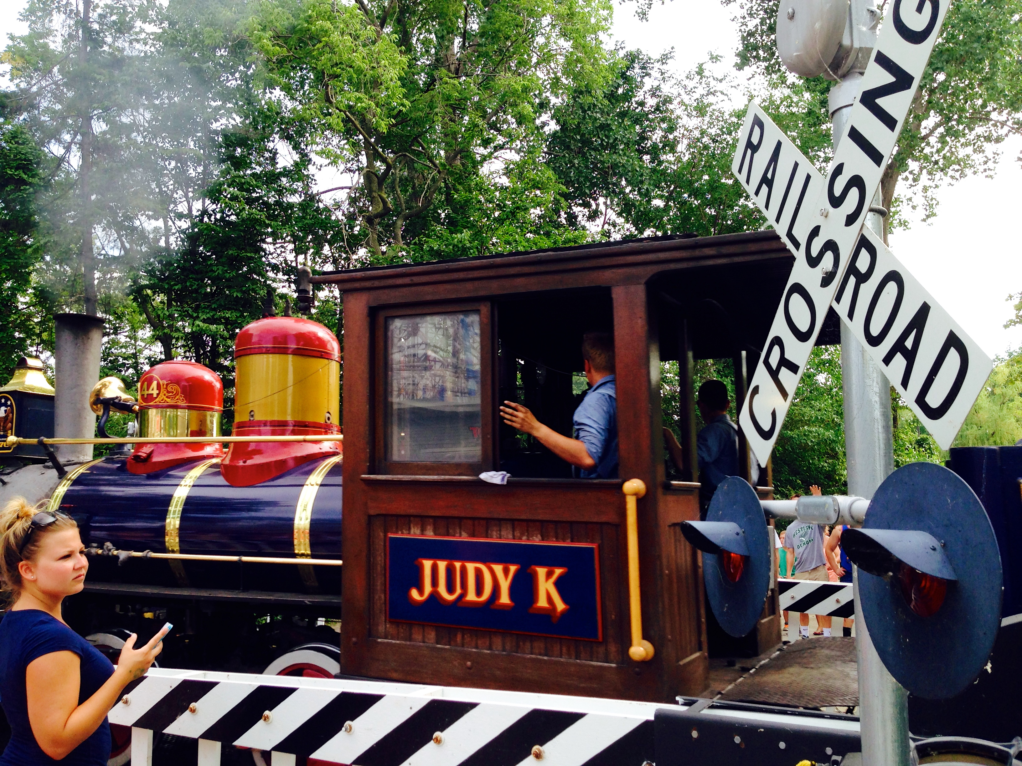 Judy K. locomotive at Gemini Midway at Cedar Point & Lake Erie Railroad grade crossing in Cedar Point.